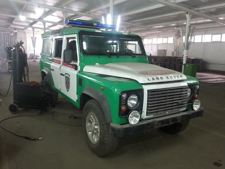 Land Rover Defender of the State Border Guard Service (SBGS) of the Ukraine